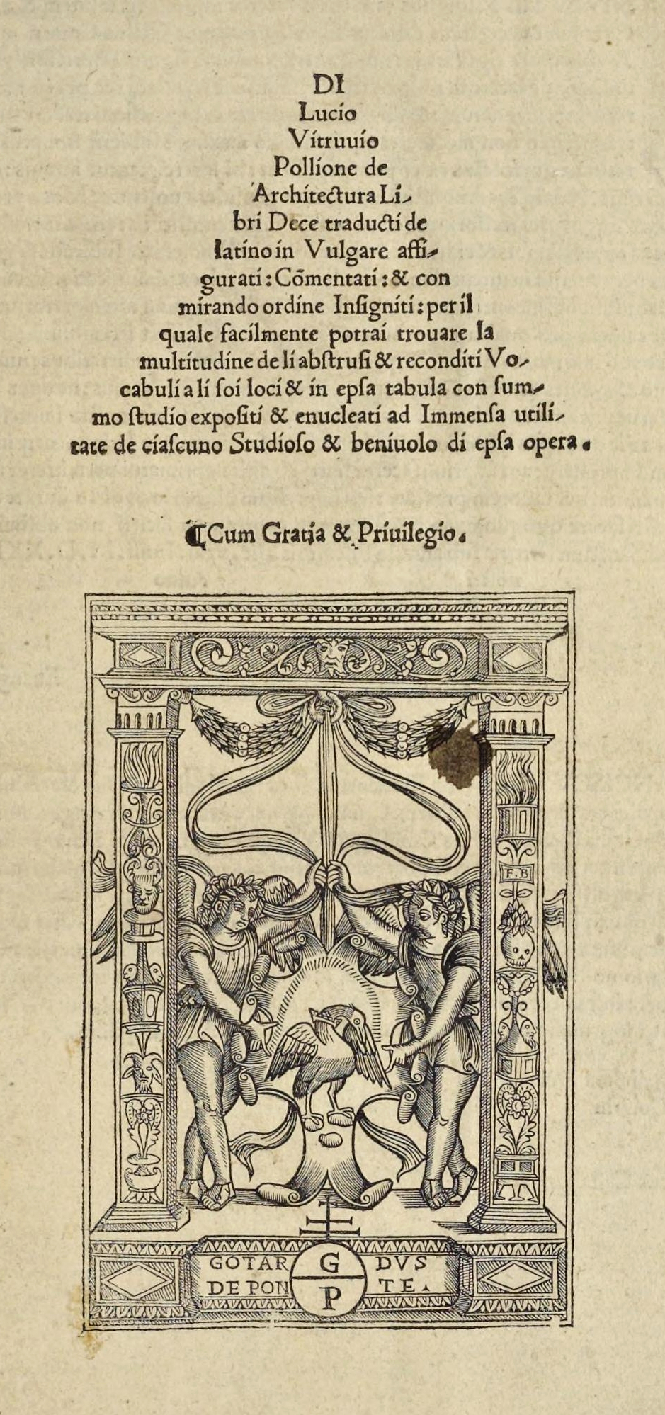 Vitruvius, De architectura in Italian, Como edition (1521), title page